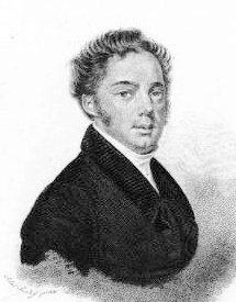 Austrian violinist and composer Franz Pecháček (1793-1840) by Johann Jaresch (17?-18?) after Adalbert Suchy (1783-1849).